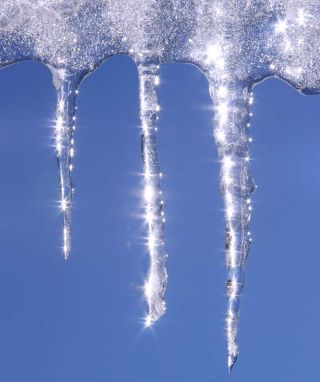 icicles